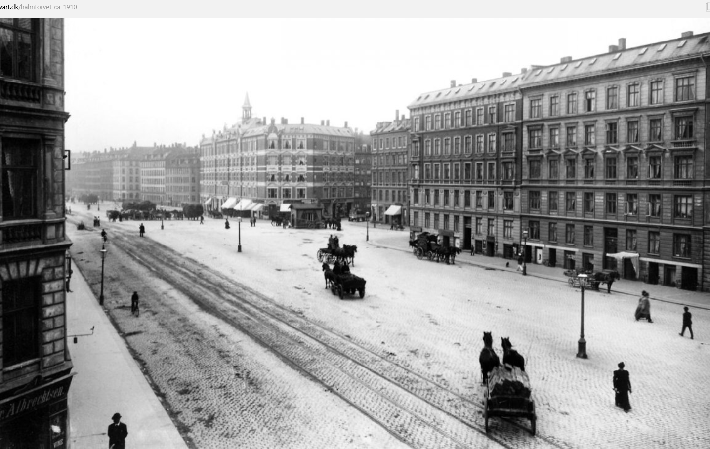 Halmtorvet in Copenhagen, Denmark